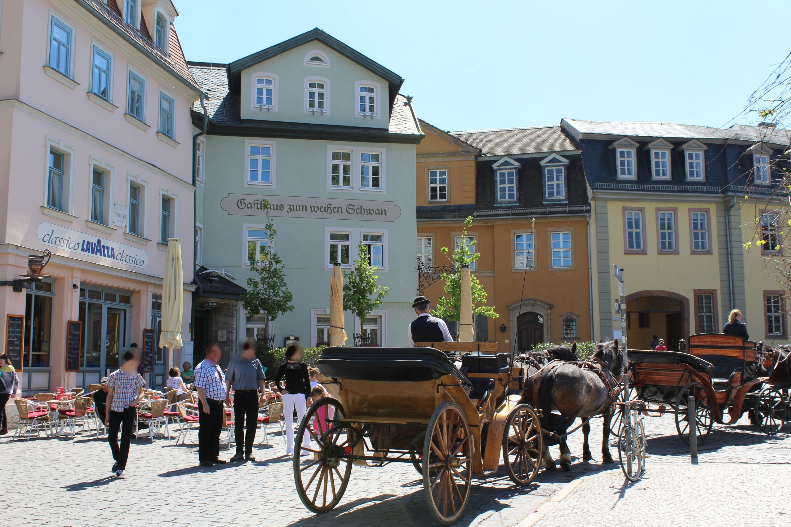 Weimar, fiacres on the Frauenplan